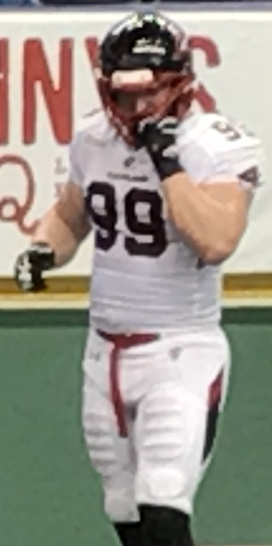 Nick Seither before a PAT